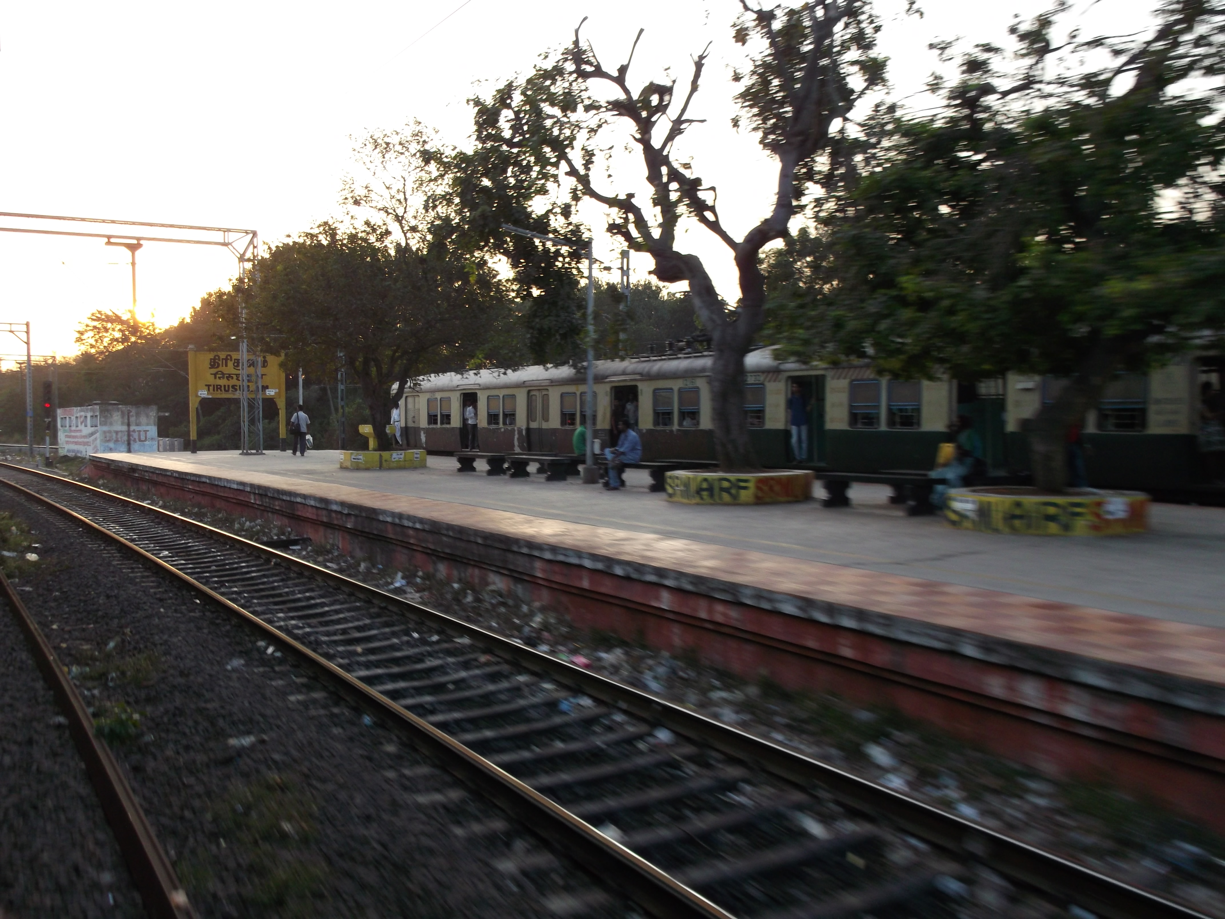 Tirusulam railway station, View 1, taken on 27-Jan-2013 at 6:00 pm.